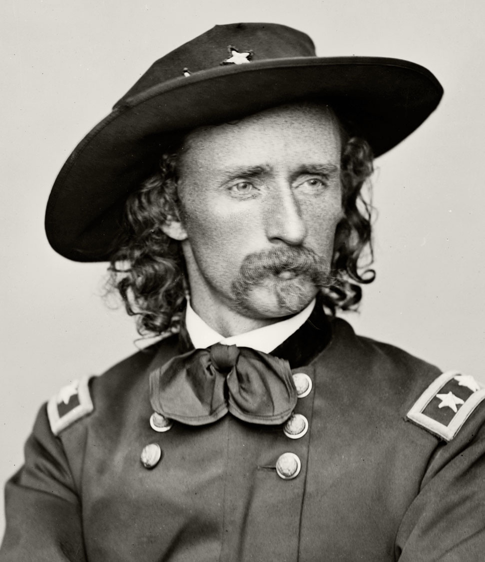 Custer, Civil War portrait